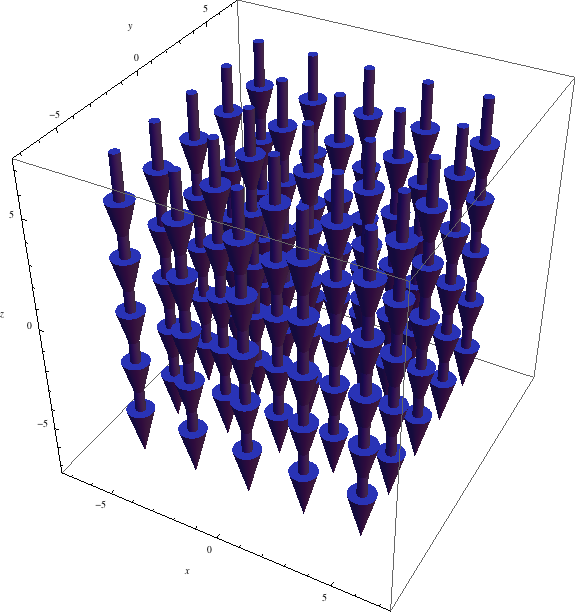 A plot of F ( x , y ) = y x ^ − x y ^ {\displaystyle {\boldsymbol {F (x,y)=y{\boldsymbol {\hat {x }-x{\boldsymbol {\hat {y . Update of older image to reflect Mathematica 7.0 syntax and formatting; replaced with PNG version